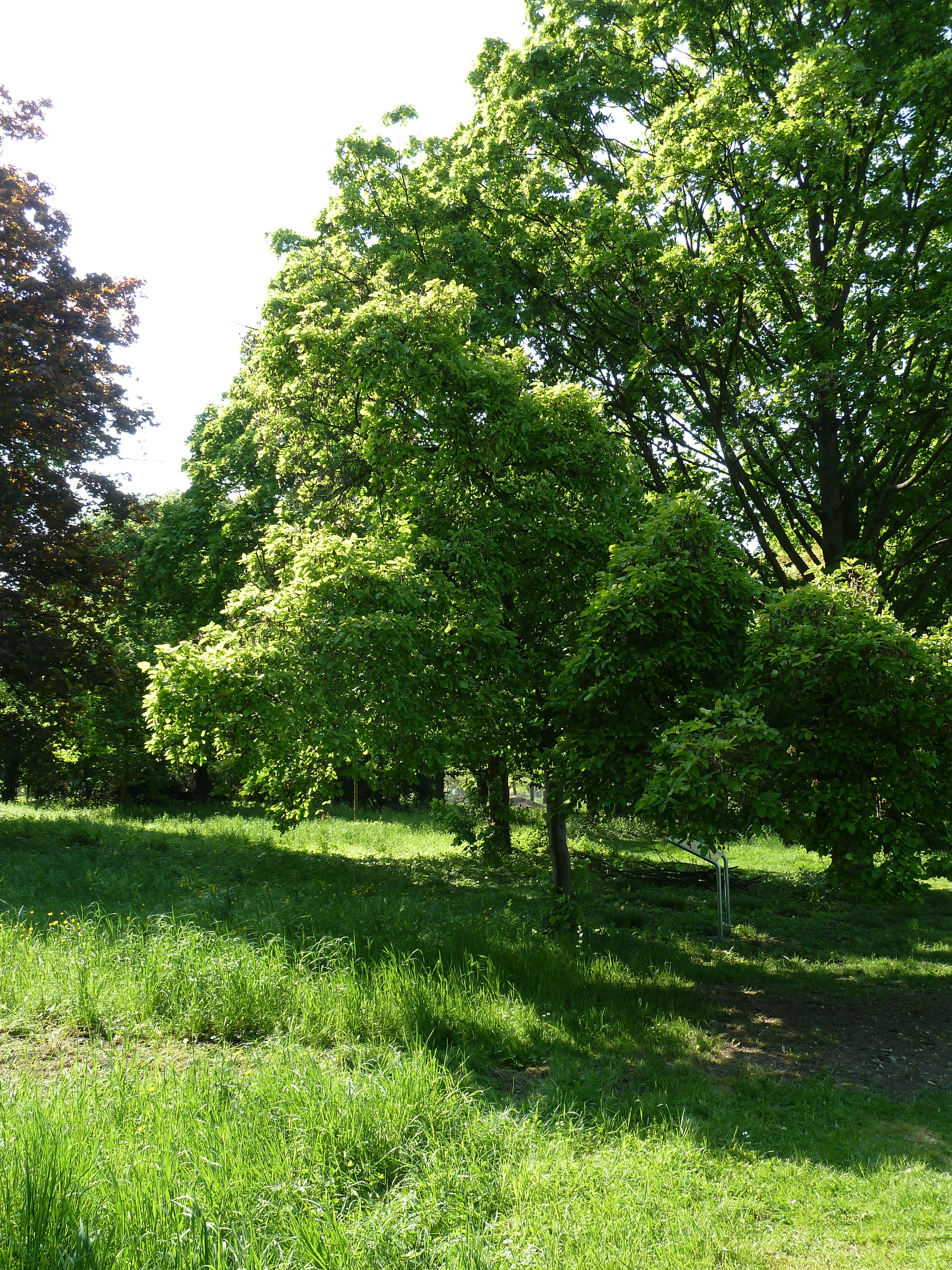 Acer tataricum in Arboretum de l'école du Breuil (Paris, France)